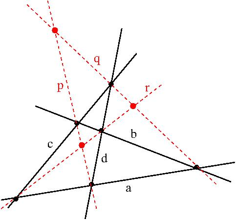 Quadrilateral to be used in projective geometry.